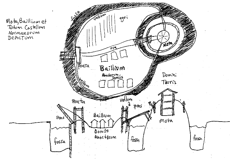 Original drawing of Motte and Bailey castle; side and top view.